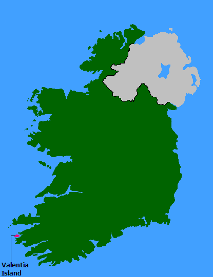 Location map of Valentia Island, County Kerry, republic of Ireland. Made with MSFT Paint.